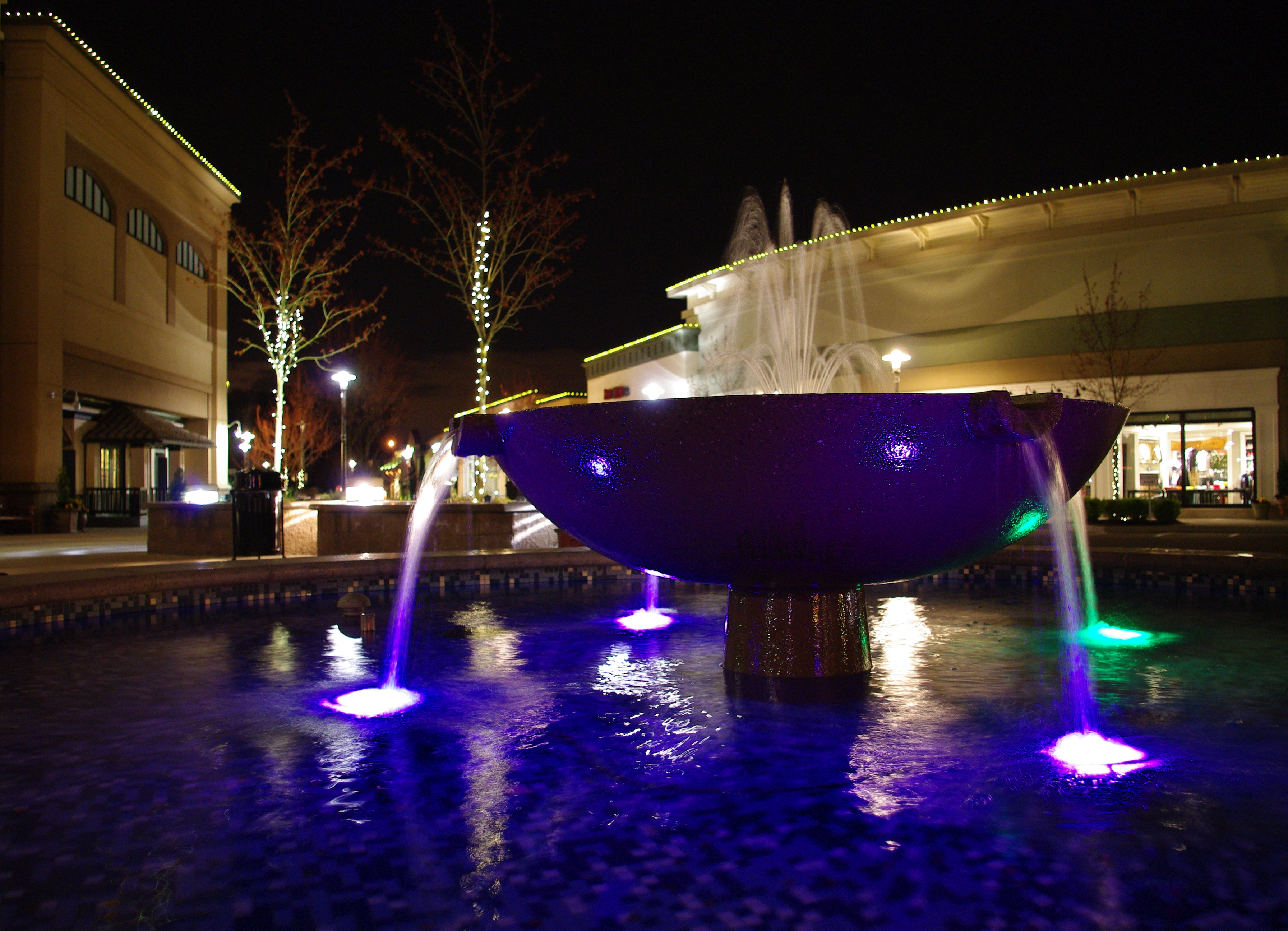 Nightime at The Streets of Tanasbourne in Hillsboro, Oregon.